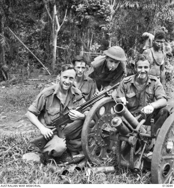 1942-11-23. NEW GUINEA. KOKODA TRACK. A CAPTURED JAPANESE MOUNTAIN GUN WHICH WAS TAKEN AT BAYONET POINT. ANOTHER GUN WAS DISMANTLED, WRAPPED IN BLANKETS AND BURIED BY THE JAPS. I HAS NOW BEEN DUG UP AND ASSEMBLED. THE GUN IN THIS PHOTO WAS TAKEN THROUGH THE OWEN STANLEYS WHEN THE JAPANESE ADVANCED TOWARDS PORT MORESBY. THE MACHINE WAS ALSO CAPTURED FROM THE JAPANESE. (NEGATIVE BY G. SILK).